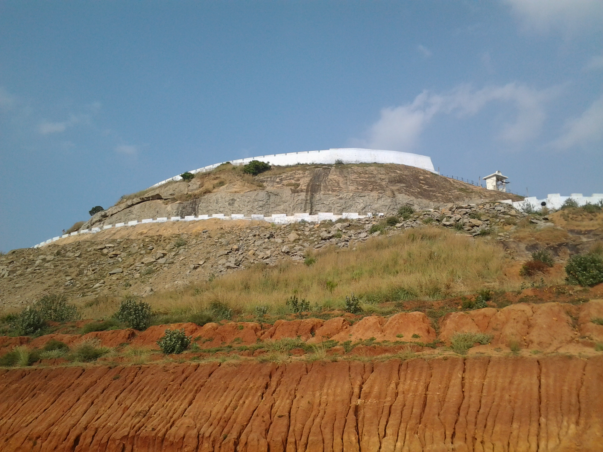 Thirumalai Muthukumaraswamy Temple in Paimpozhil, Tenkasi Taluk, Tamilnadu, INDIA.